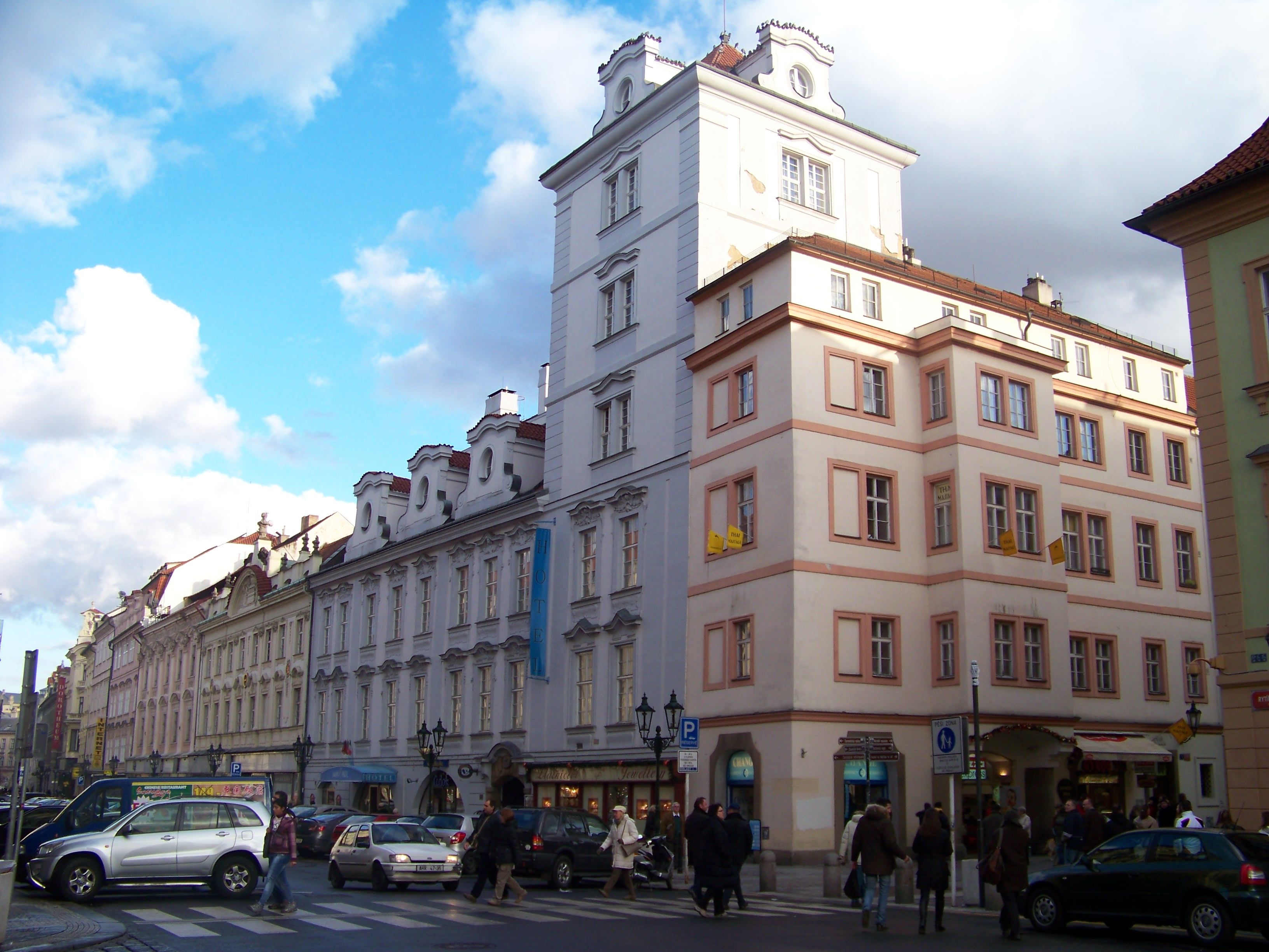 Prague, Old Town, the Czech Republic. Rytířská and Na Můstku streets, a corner house.